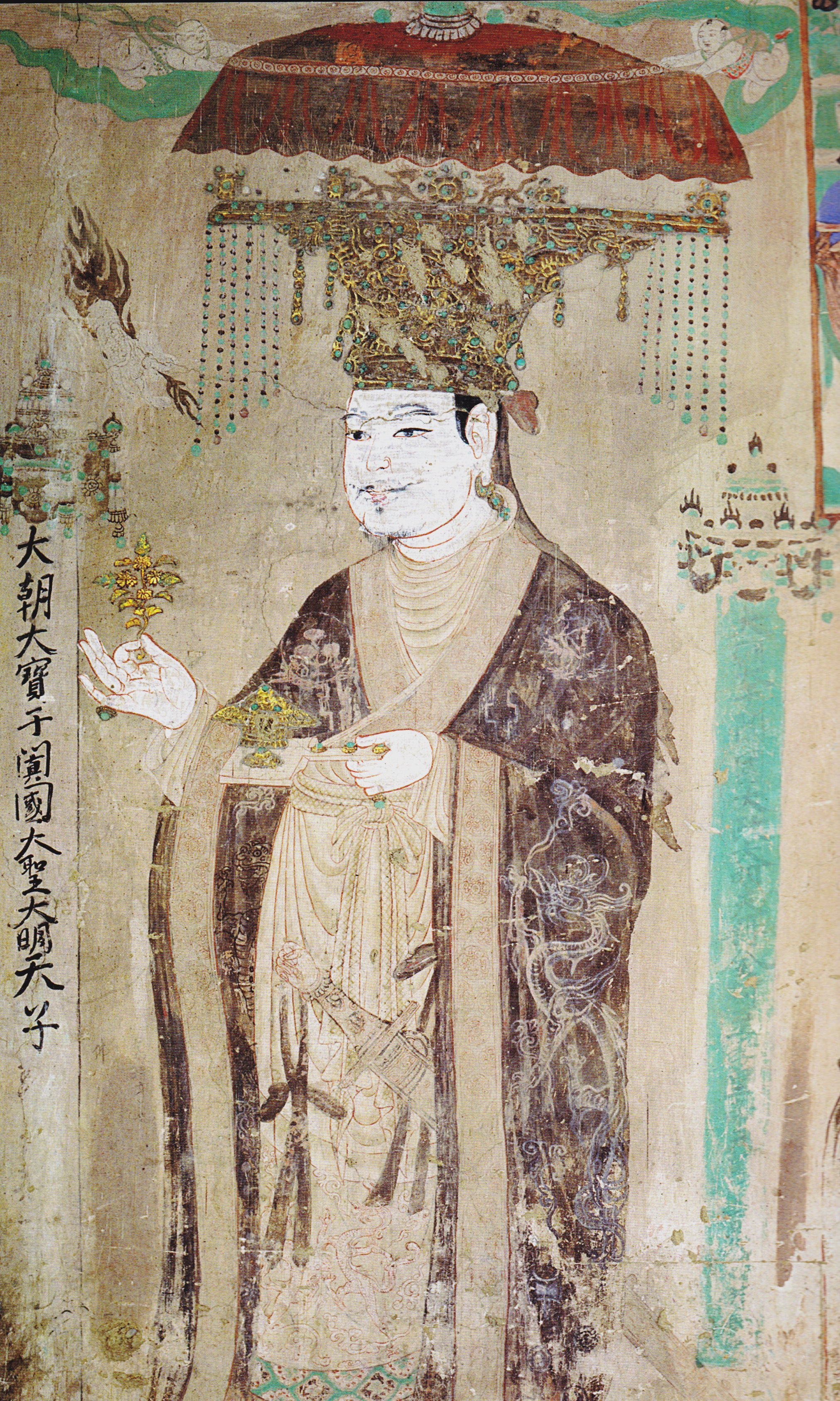 Portrait of Viśa Saṃbhava, a Khotan king, from the Mogao Caves, Dunhuang, the Five Dynasties (907–979), scanned